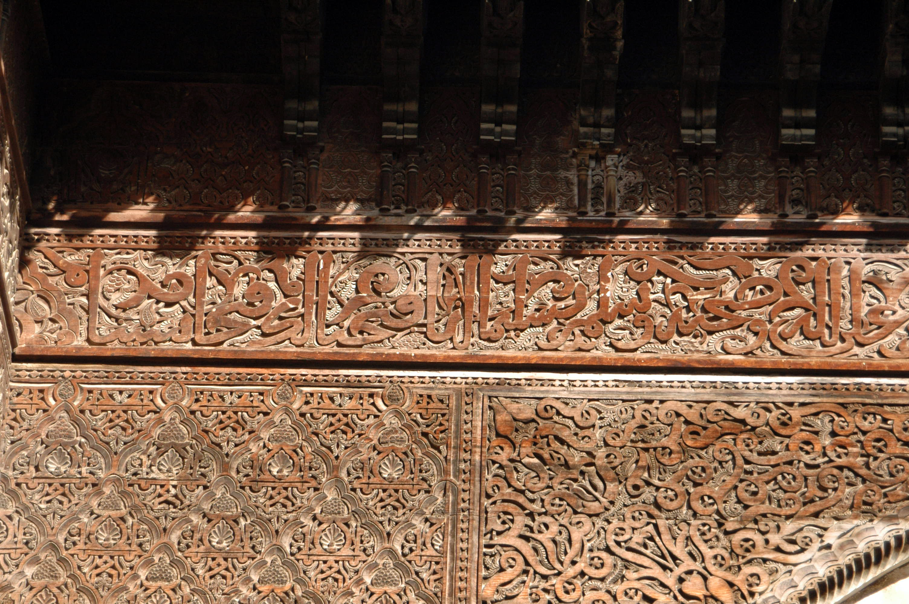 Sahrij Madrasa, wood-carved decoration